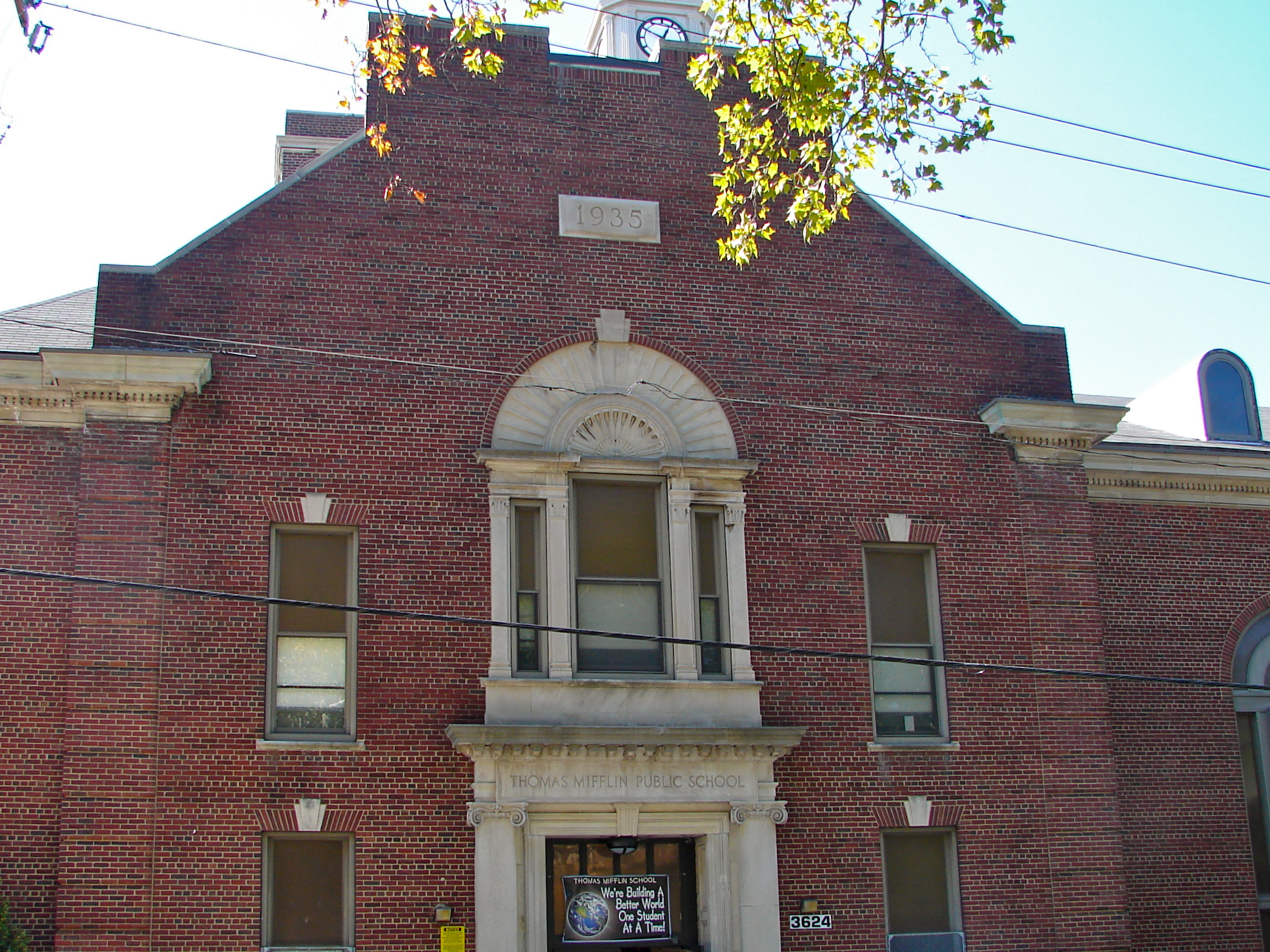 Thomas Mifflin School in Philadelphia on the NRHP since November 18, 1988. At 3624 Conrad Street in the East Falls neighborhood of Northwest Philly. Not to be confused with the very old (and modified) Mifflin School in North Philly